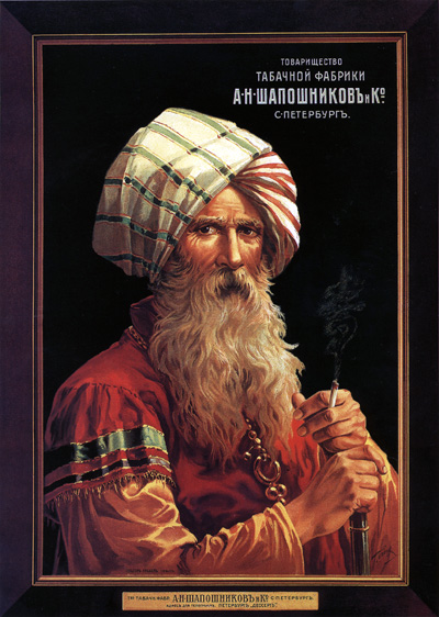 Shaposhnikov company, placard by Vladimir Taburin